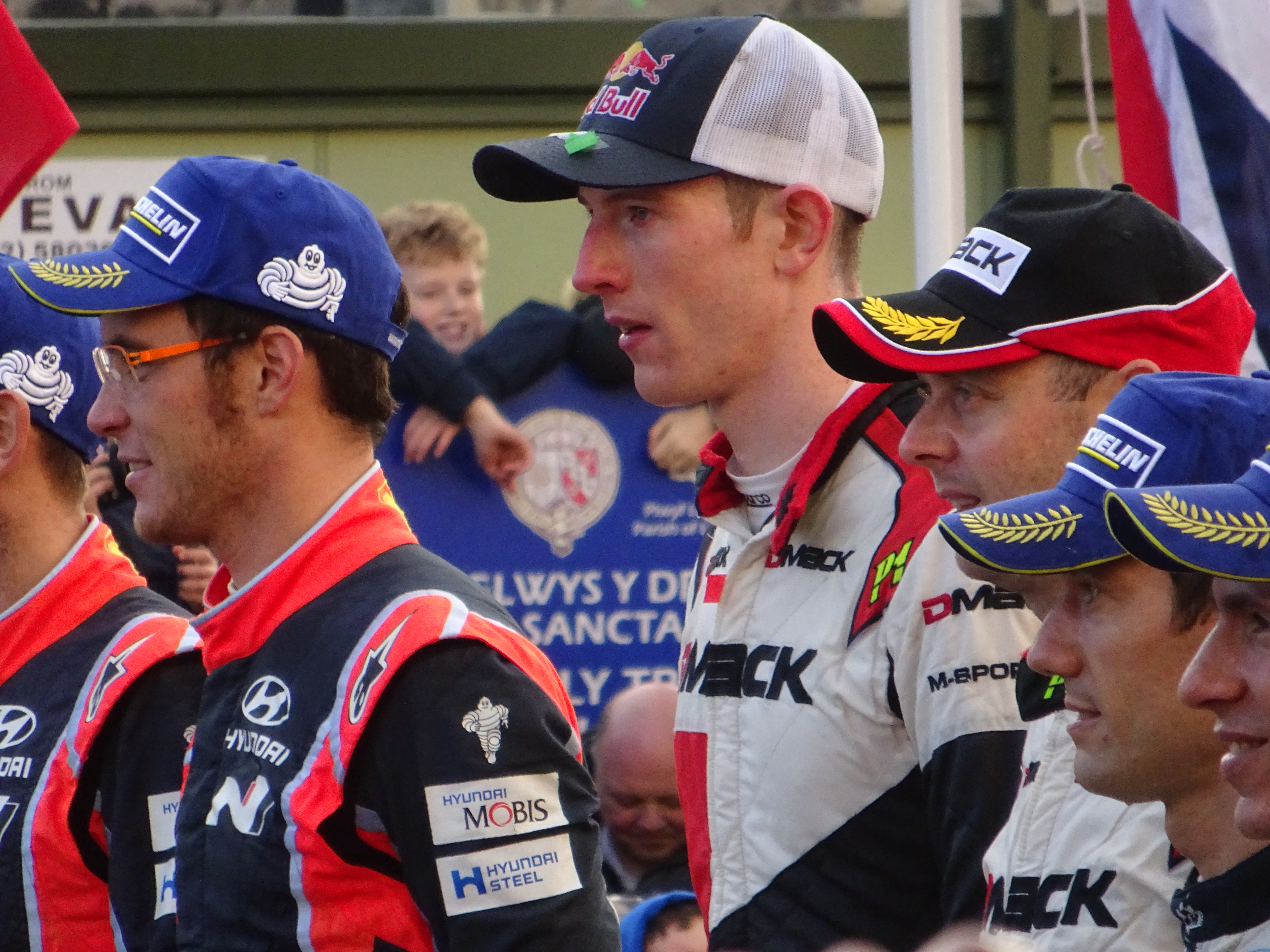 Welshman Elfyn Evans and co-driver Daniel Barritt, and runners up at the Awards ceremony. Winner of the Wales Rally GB - penultimate round of the globe-trotting World Rally Championship; Llandudno, Wales, 29 October 2017.